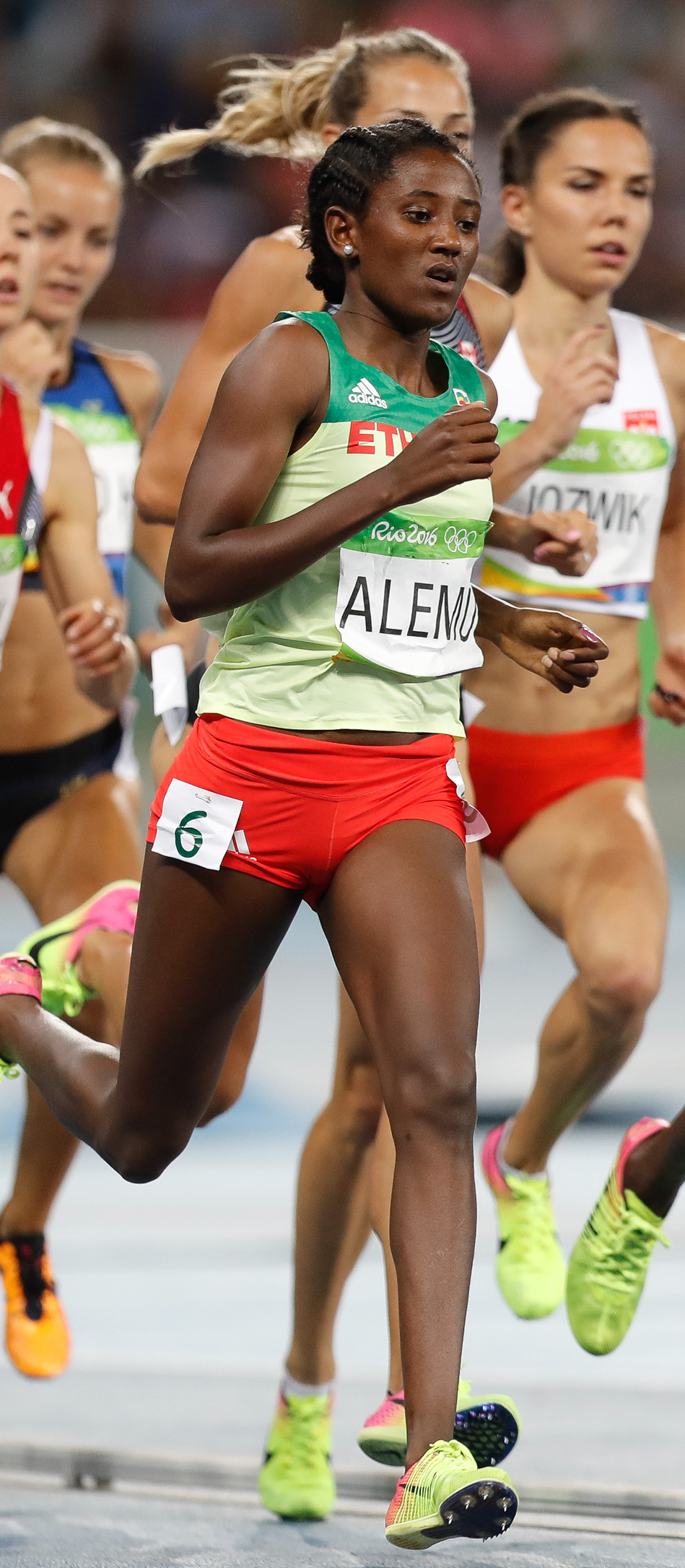 Rio de Janeiro - Semifinais dos 800m feminino nos Jogos Rio 2016, no Estádio Olímpico. (Fernando Frazão/Agência Brasil)